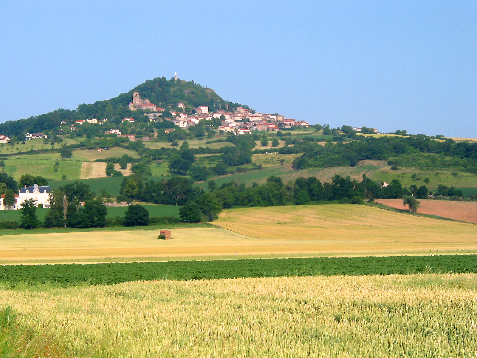 Usson, Puy-de-Dôme (France), the village perched on its volcanic mound.